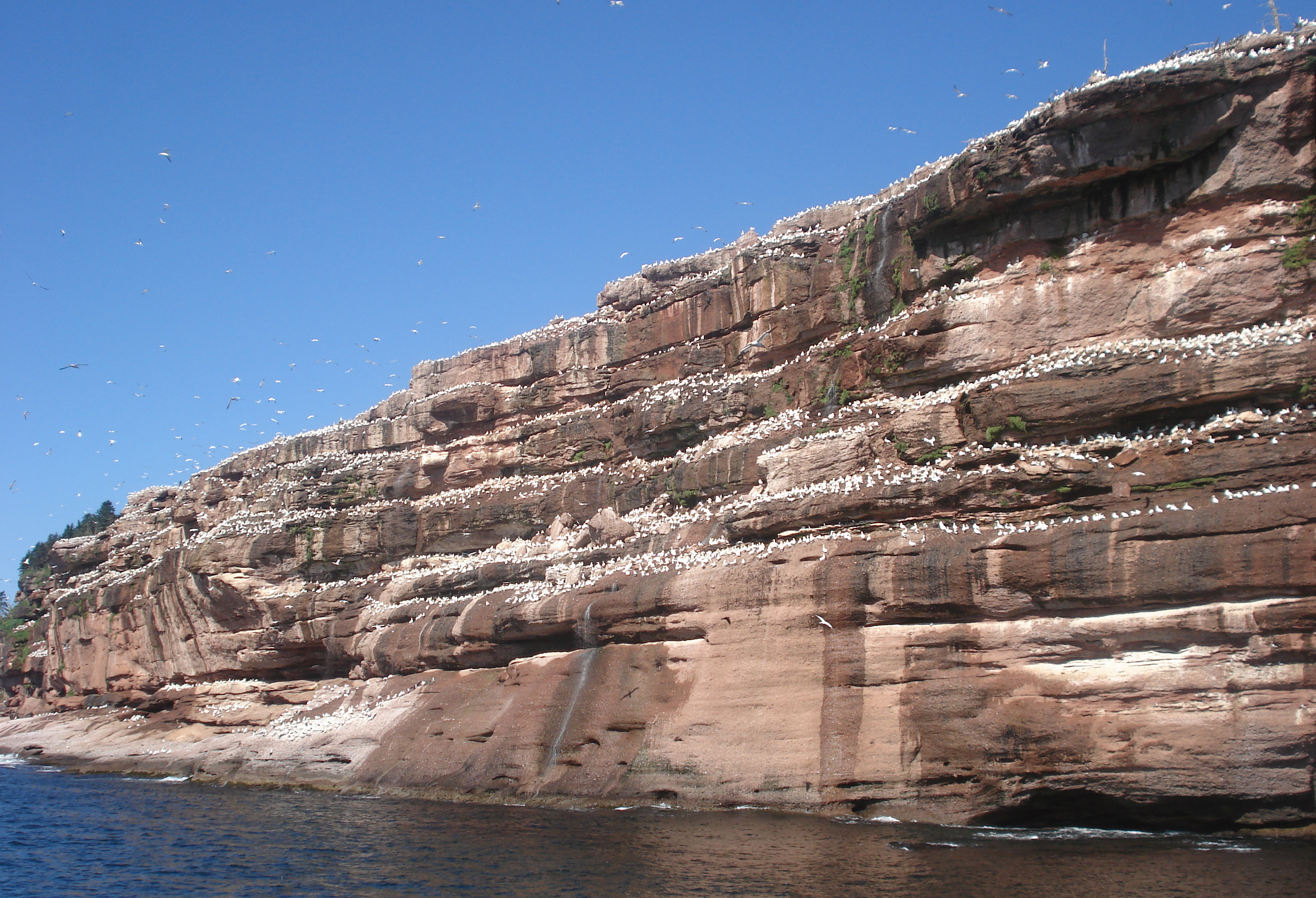 Northern Gannets on Bonaventure Island in Gaspésie (Canada).